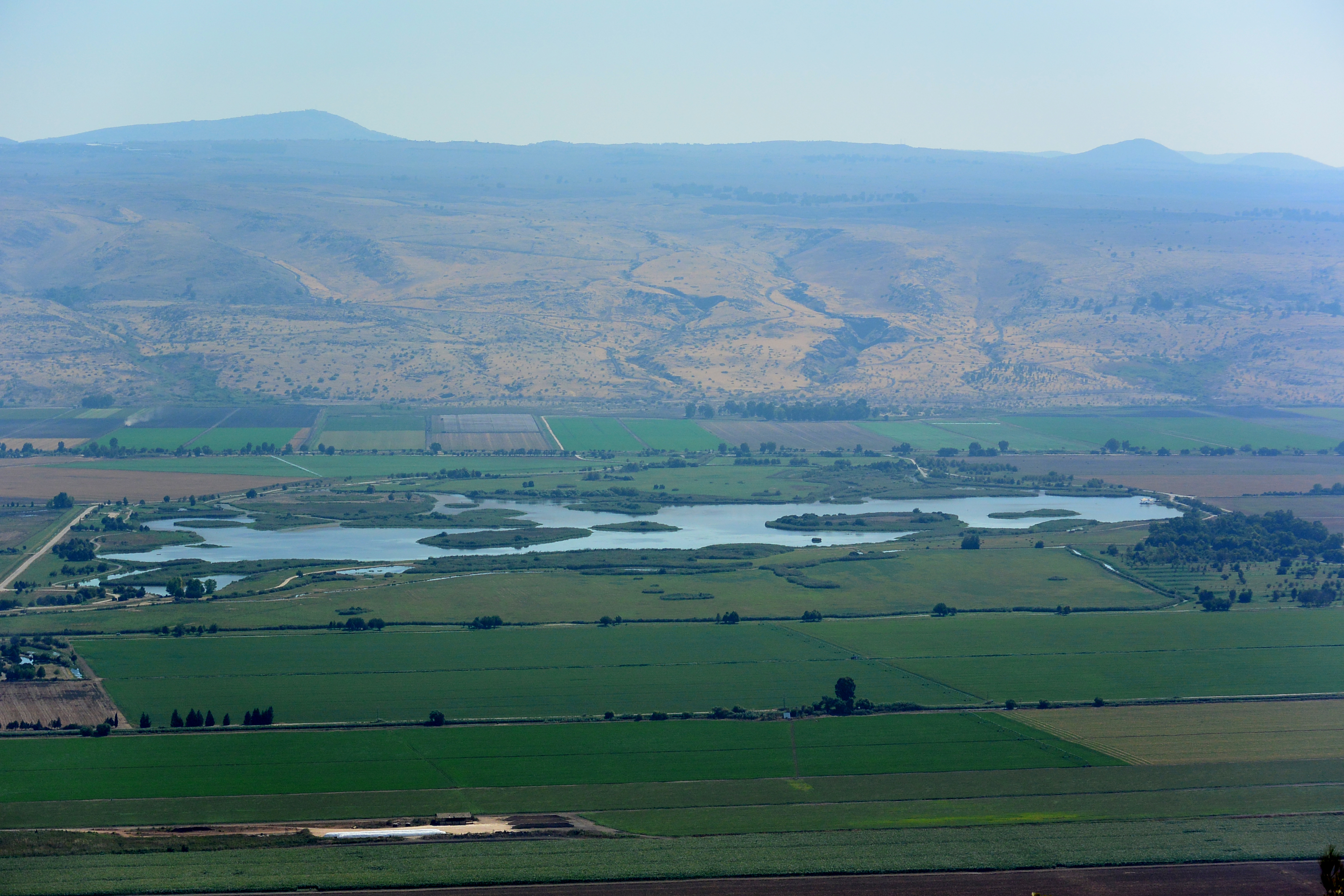 View of Agamon Hula Nature Park from Agamon Hula lookout.